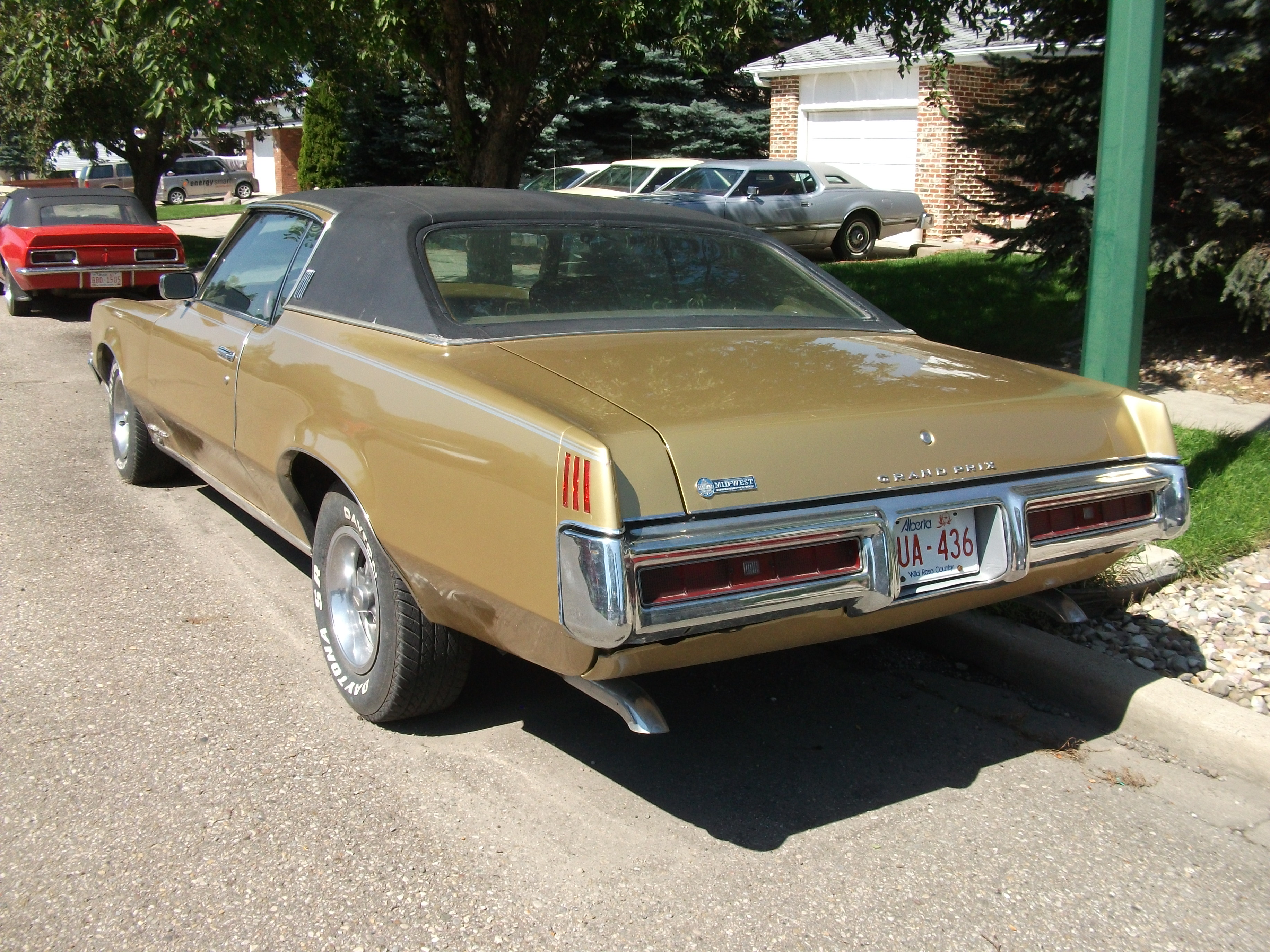 Big, brown Pontiac Grand Prix SJ.